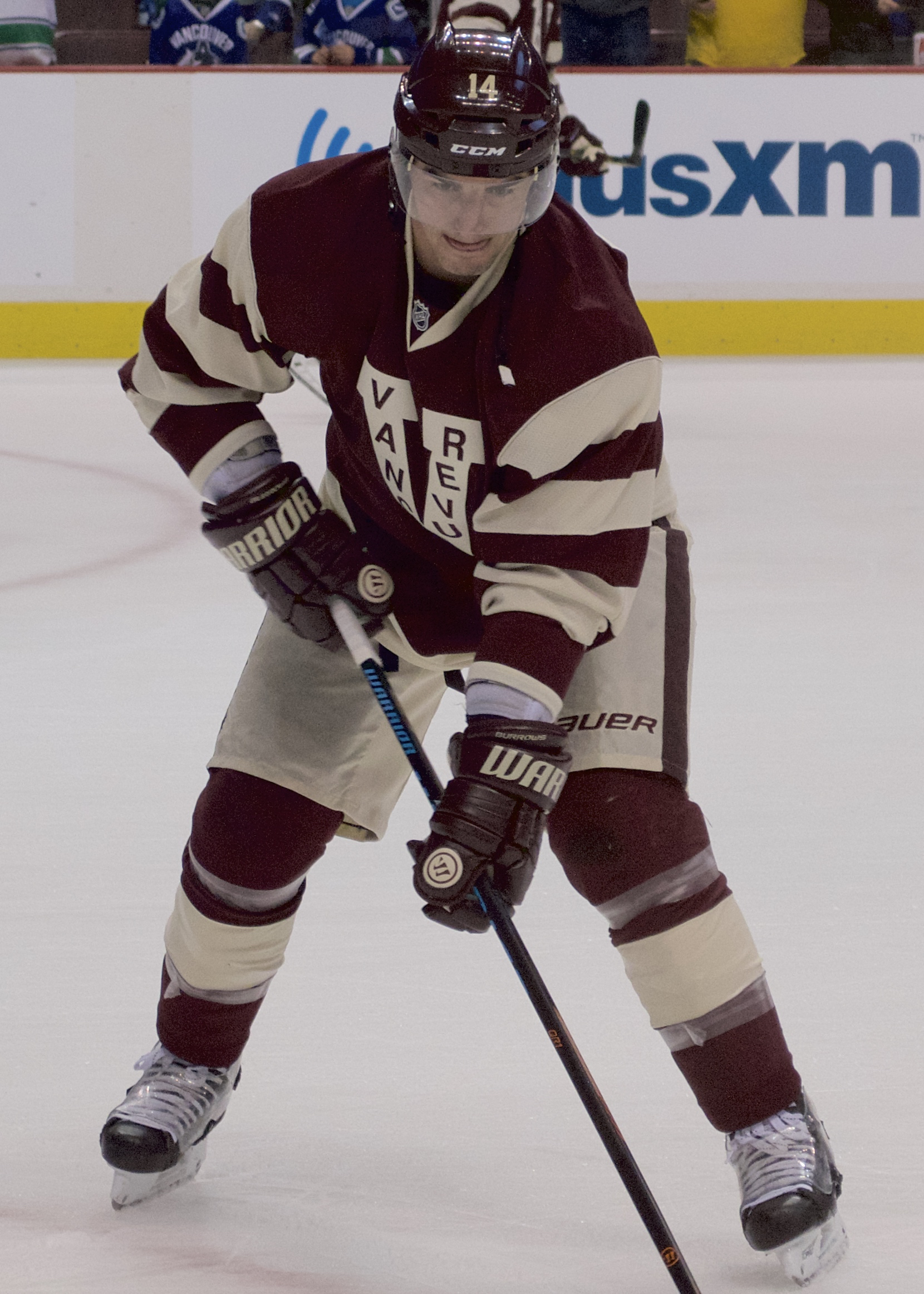 Vancouver Canucks winger Alex Burrows during a pre-game warm up on March 26, 2015 at Rogers Arena. The team wore Vancouver Millionaires jerseys commemorating the Millionaires' 1915 Stanley Cup victory.